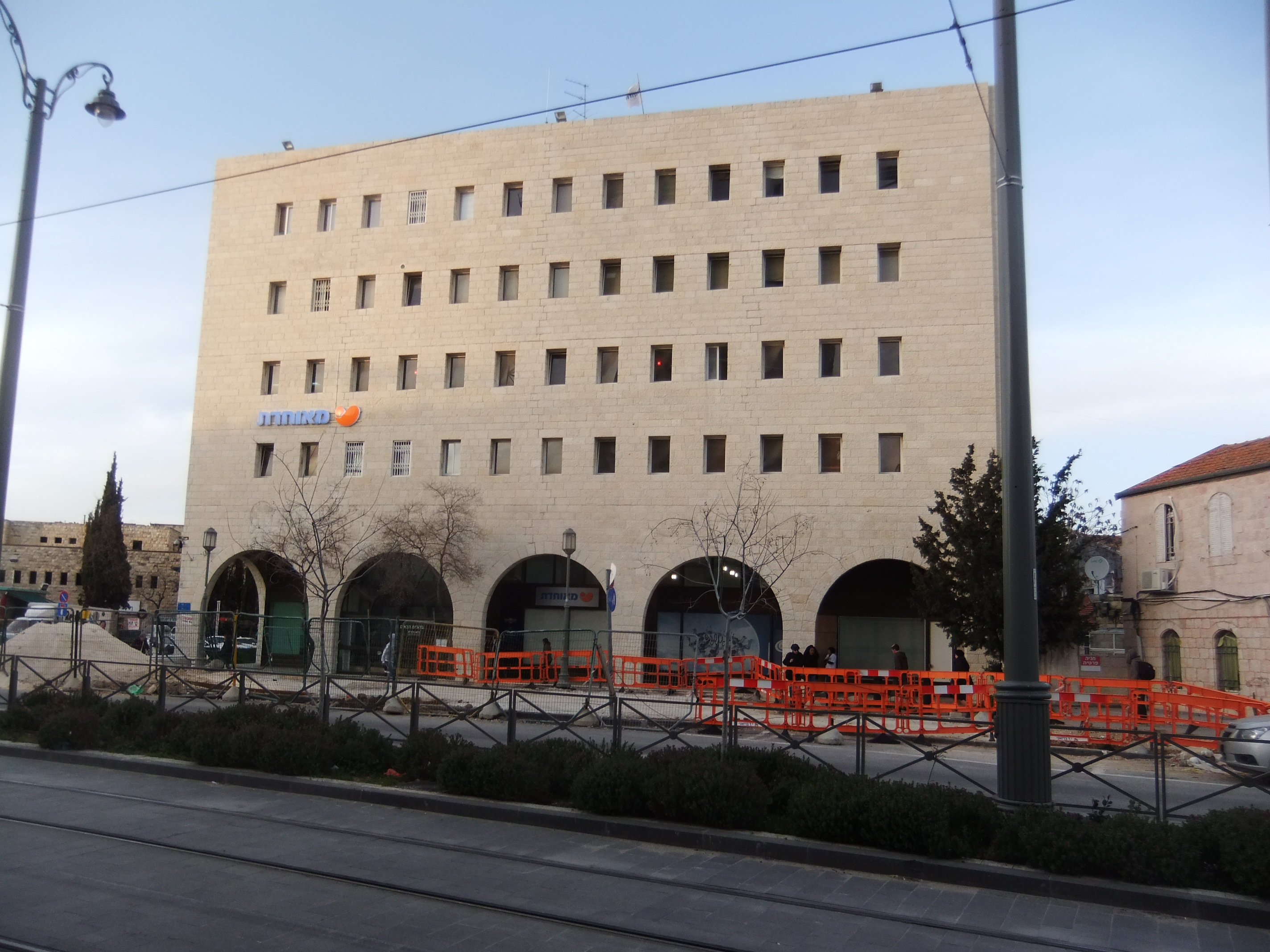 Meuhedet Health Services building on HaTurim St 2 (corner of Jaffa street) Jerusalem